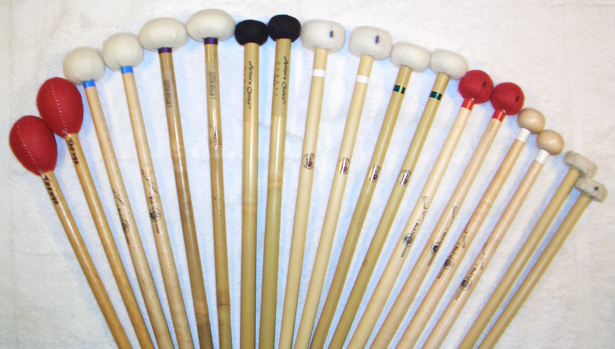 Timpani sticks. Photograph by flamurai.